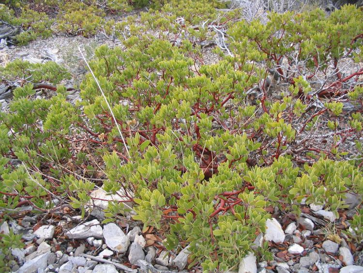 Manzanita in chaparral habitat, Arctostaphylos species, in Santa Cruz County, California.